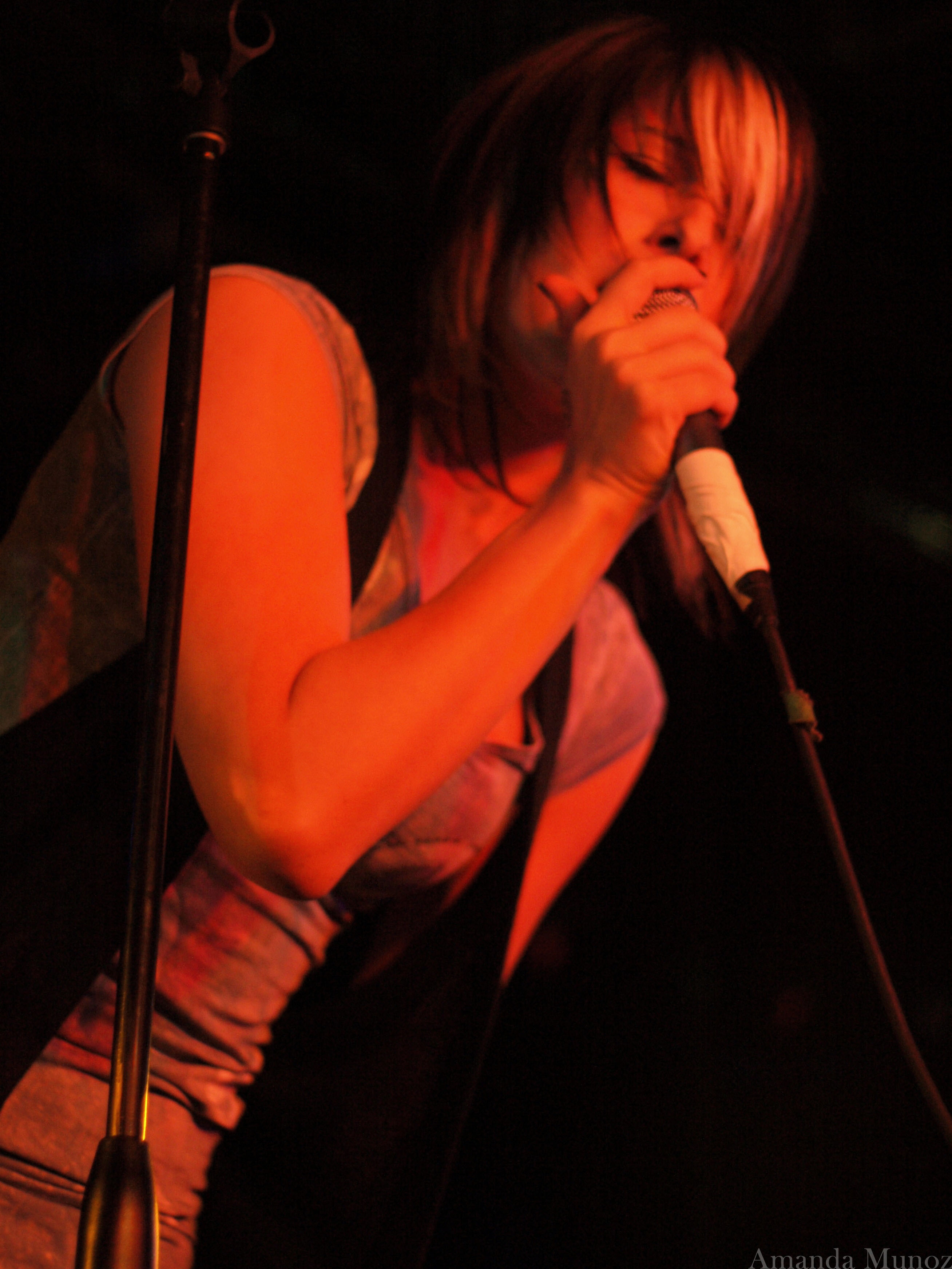 Cassade Pope